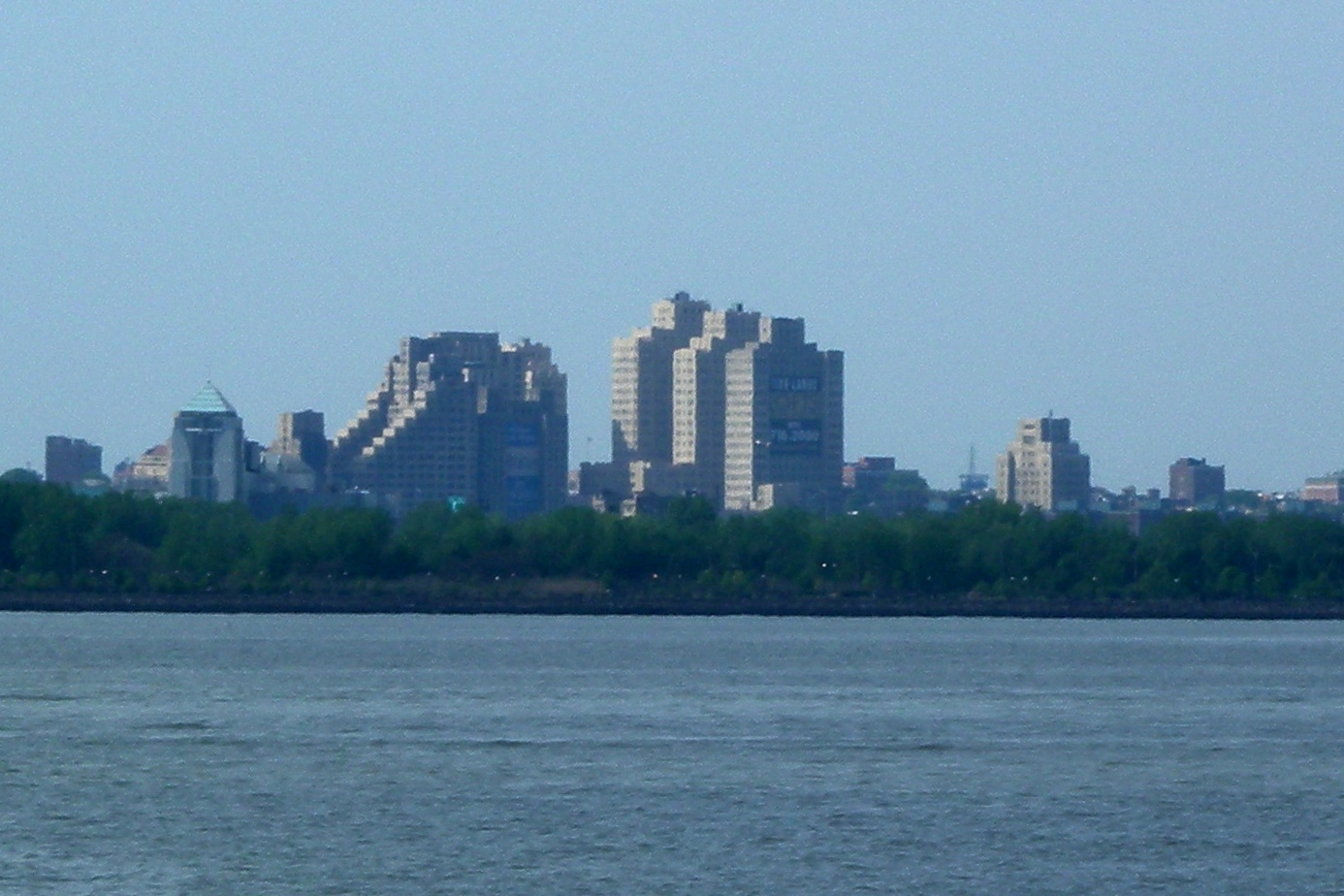 Looking west, zoomed, from Staten Island Ferry at the former Jersey City Medical Center, now Beacon, Jersey City on a hazy afternoon during 5BBT. See also File:JCMC fr hblr Liberty Park jeh.jpg.